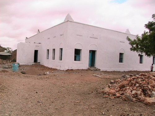 masjidka kalabaydh